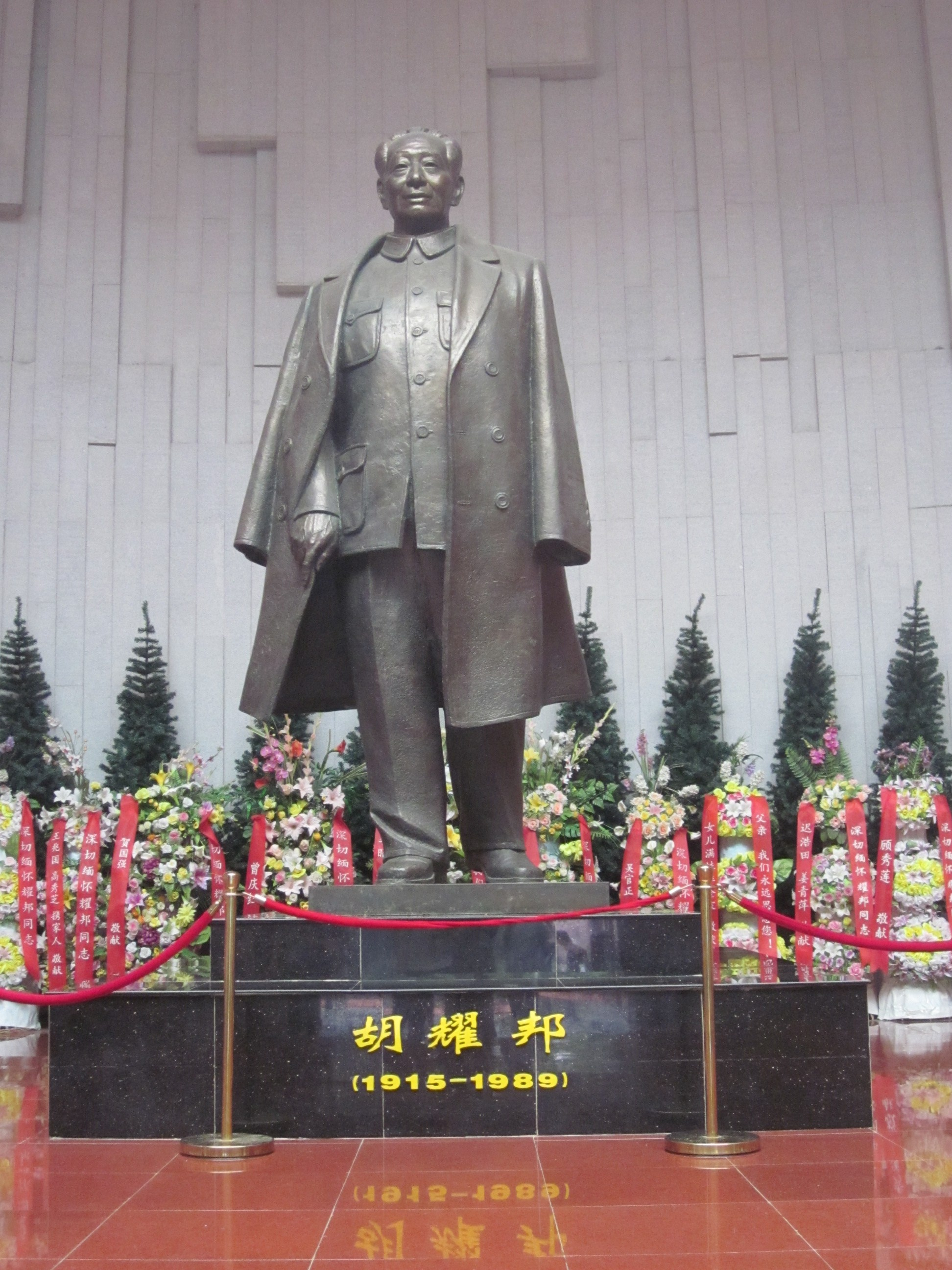 Hu Yaobang's Former Residence (Chinese: 胡耀邦故居), located in Liuyang City, Hunan Province, is one of the famous tourist attractions in China.